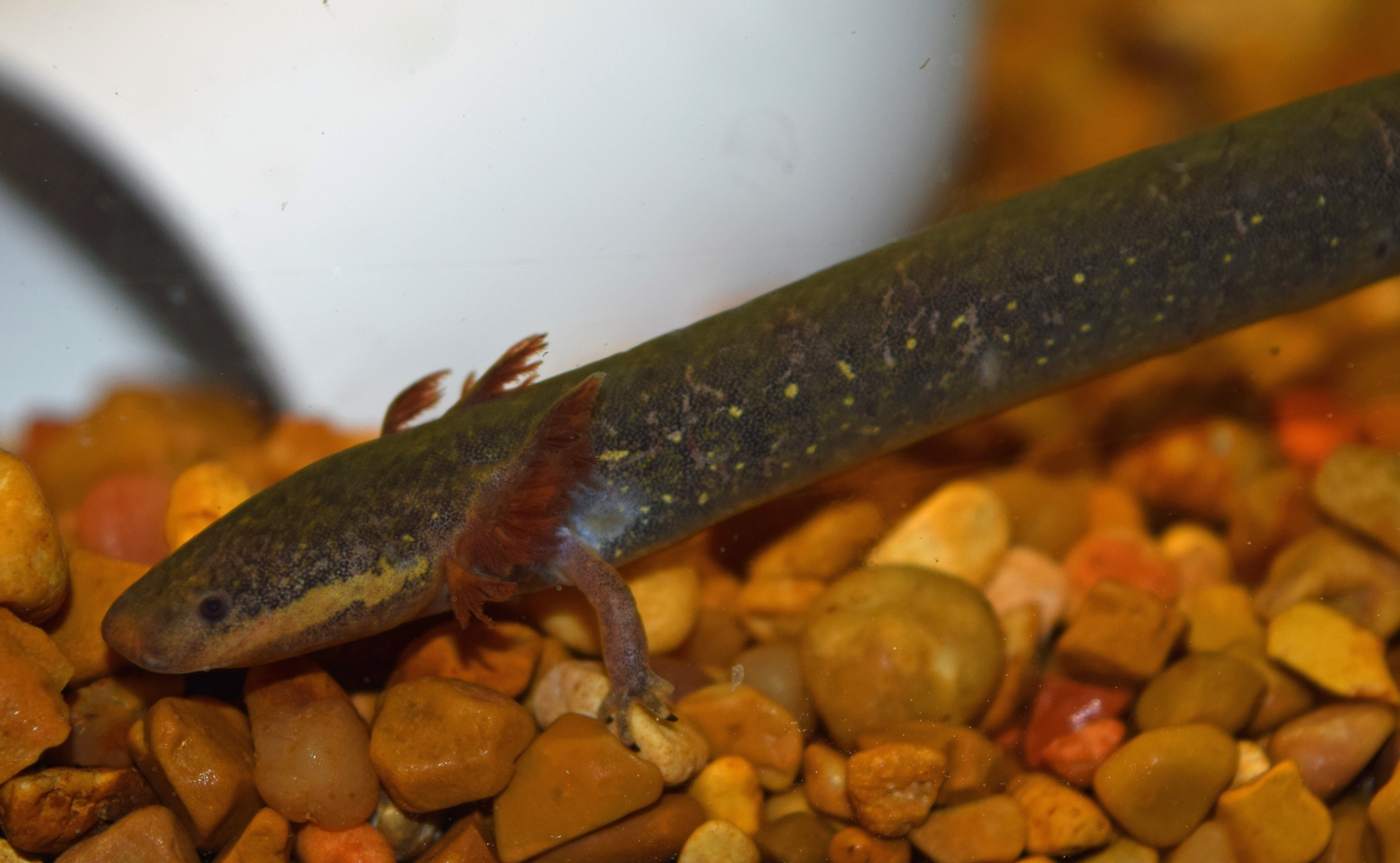 A Siren intermedia nettingi (western lesser siren) at the University of Mississippi Field Station.